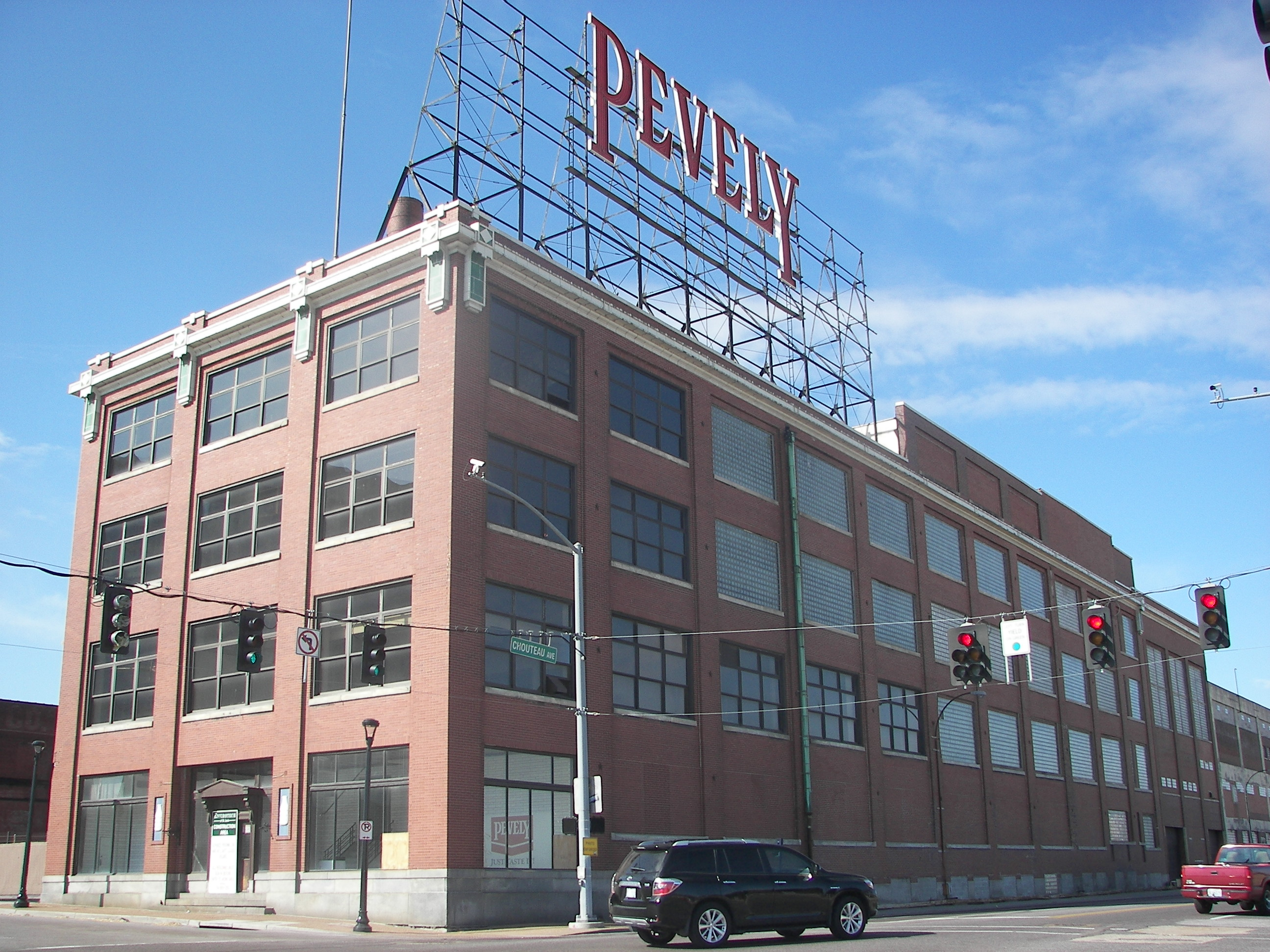 Photograph of marquee sign on the Pevely Dairy Company Plant office building (viewed looking west) at 1001 S. Grand Avenue, St. Louis, Missouri